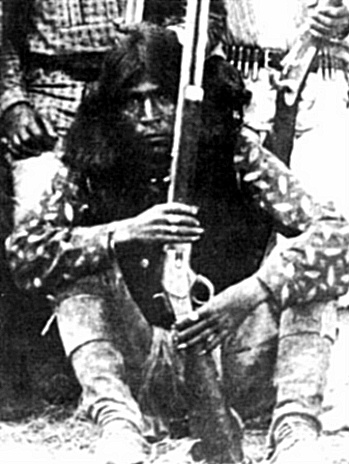 Photograph of Apache Indian Scout Corporal Elsatsoosu, c. 1873.